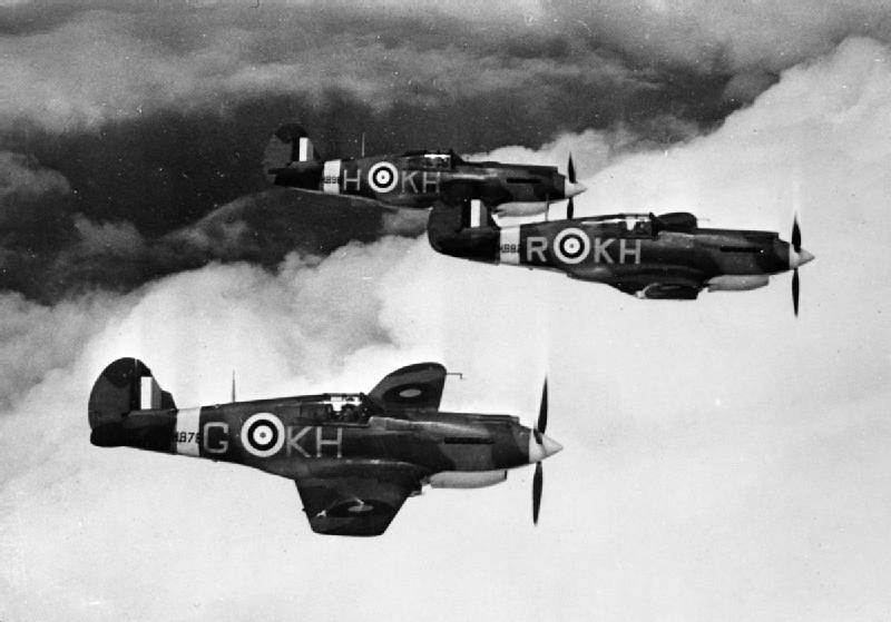 Three Royal Canadian Air Force Curtiss Tomahawks of No. 403 Squadron RCAF based at Baginton, Warwickshire (UK), flying in 'vic' formation over clouds. In the foreground is a Mark I, AH878 'KH-G', accompanying two Mark IIAs, AH882 'KH-R' and AH896 'KH-H'. These were among the first Tomahawks to enter squadron service with the RAF, although 403 Squadron operated them for only a short time (29 sorties) in the Army Cooperation role before converting to Supermarine Spitfire Mark Is in May 1941.